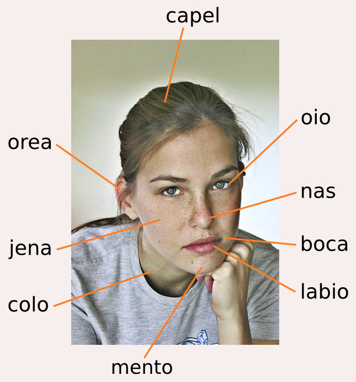 Face basic words in Lingua Franca Nova. Adaptation of Bar Reaeli's photography by Karin Bar, , K Bar from TA, IL at Flickr